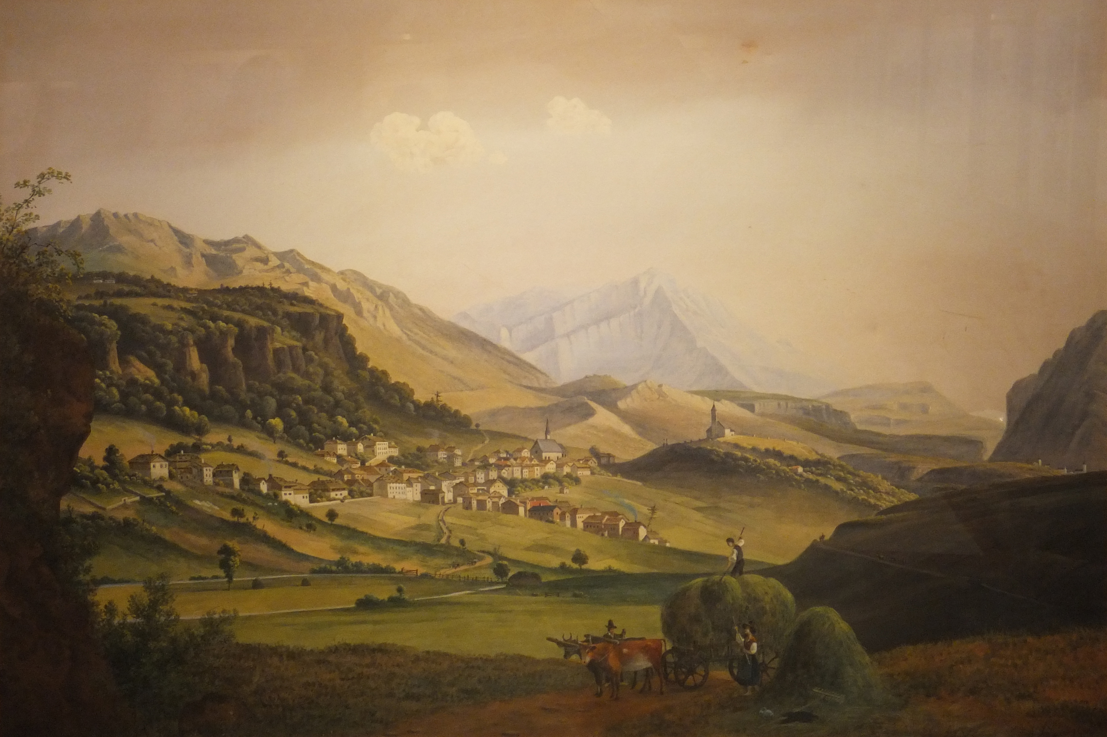 Frédéric Martens - View of Pieve Tesino in the first decades of 1800